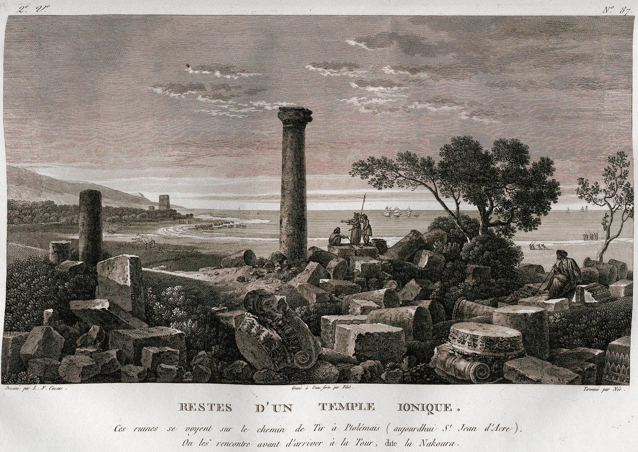 Louis-François Cassas From: Voyage pittoresque de la Syrie, de la Phoenicie, de la Palaestine et de la Basse Aegypte: ouvrage divisé en trois volumes contenant environ trois cent trente planches